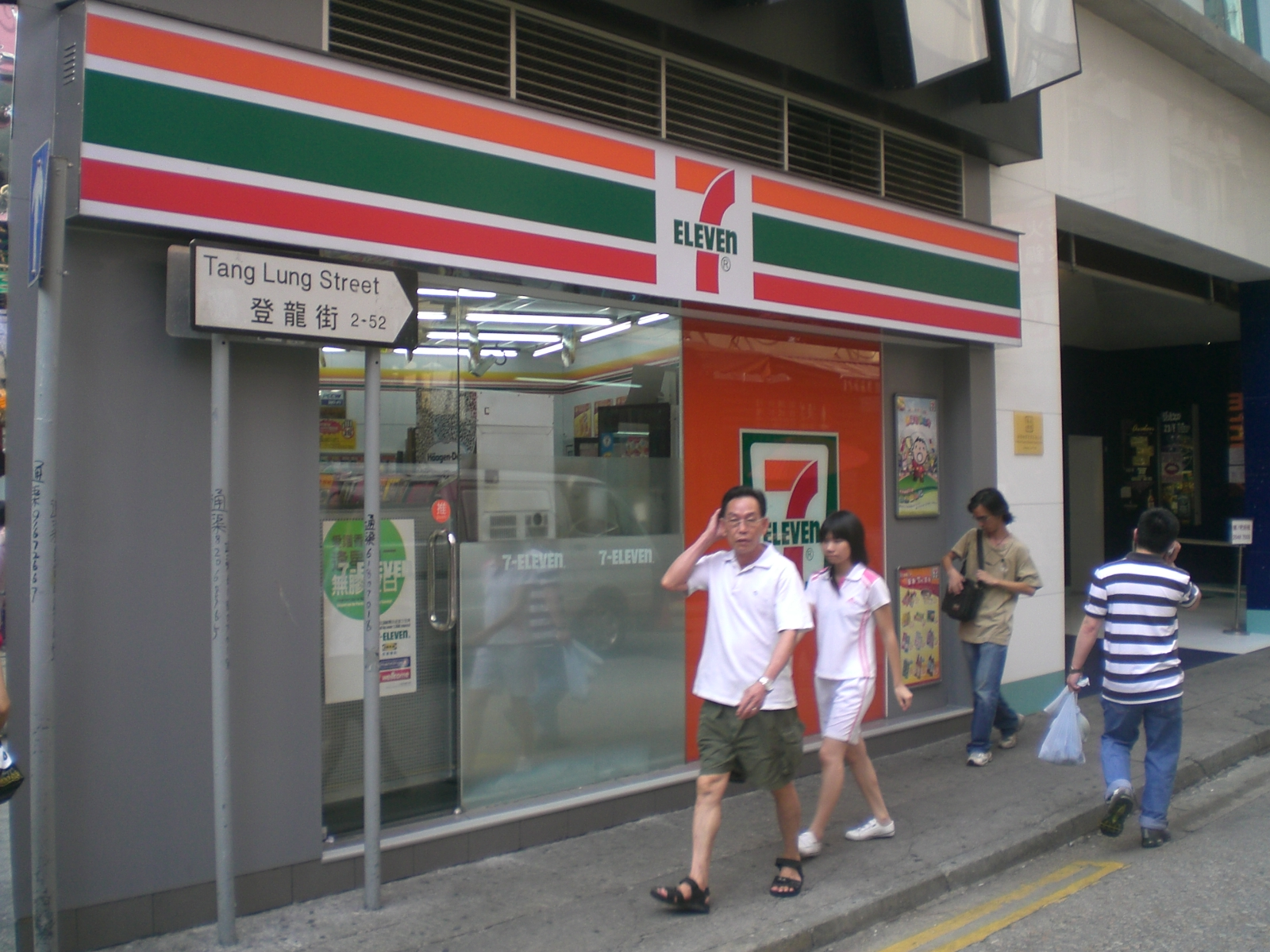 銅鑼灣登龍街